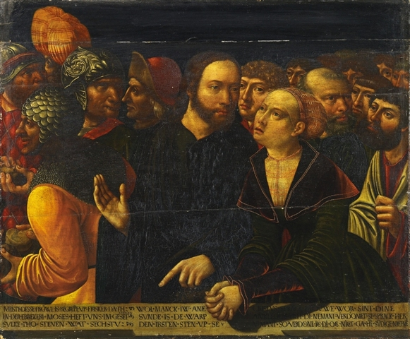 Jesus and the adulteress